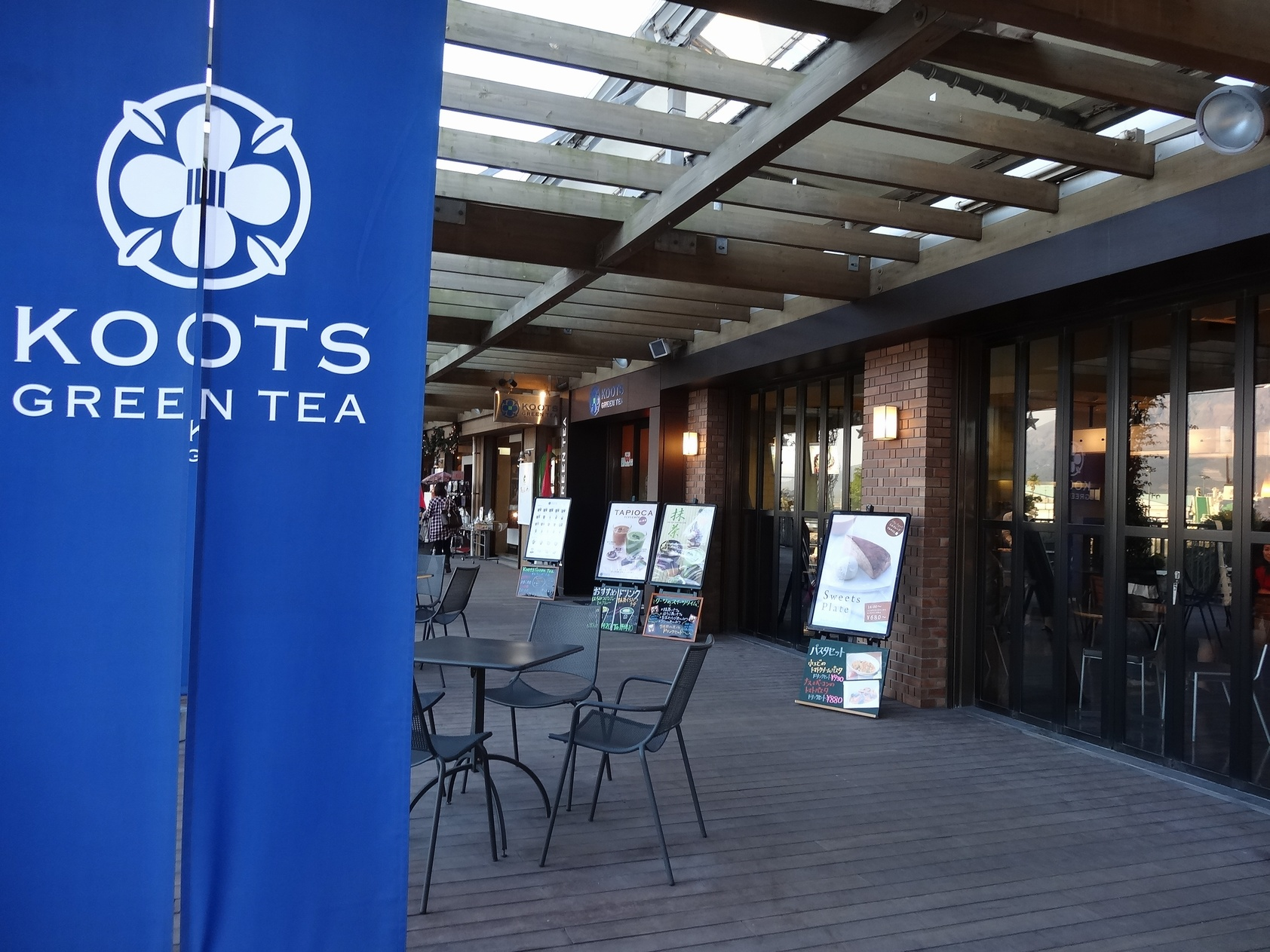 The KOOTS GREEN TEA Store in Kagoshima City, Japan.